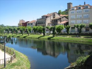 View of Rio Cabe (Monforte de Lemos)